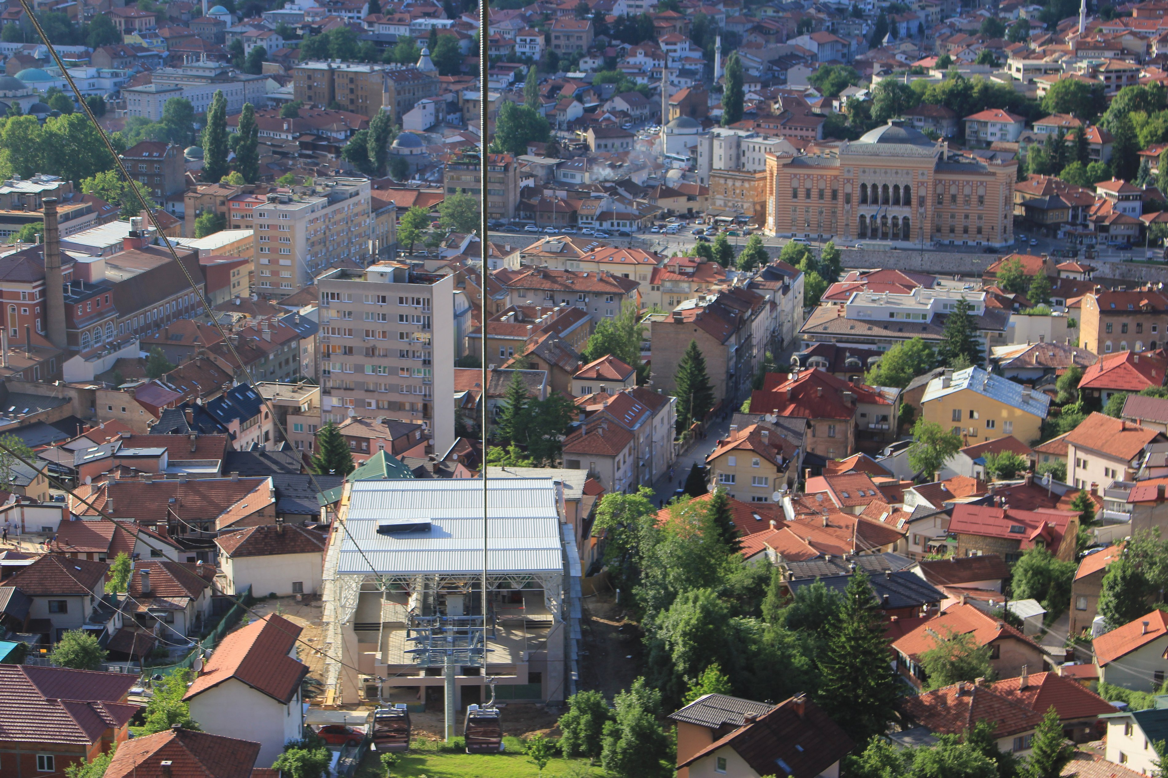 Trebević Cableway in Sarajevo.